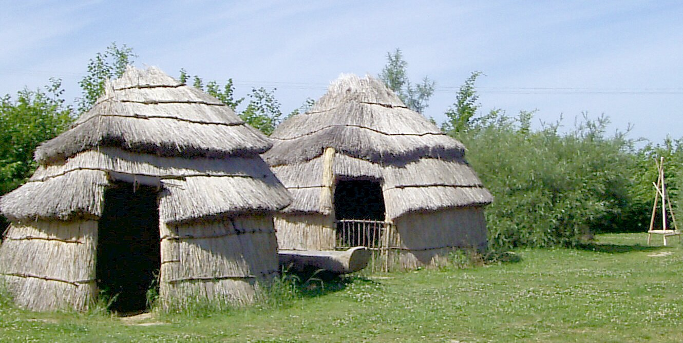 stone age village Kussow, municipality Damshagen, Germany